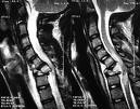 MRI of C6 cervical spine fracture with cord compression